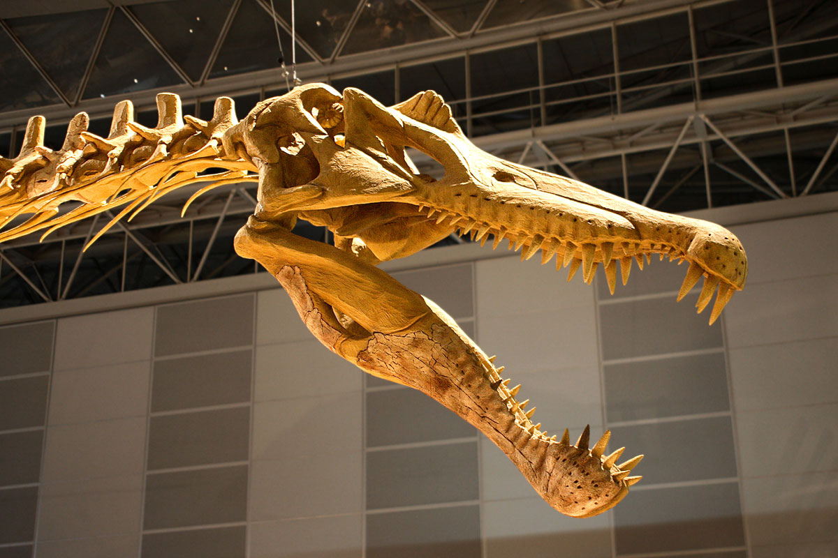 Spinosaurus, photographed at an event at the Makuhari Messe convention center, Chiba, outside Tokyo, Japan